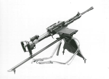 WWII era italian medium Machine gun